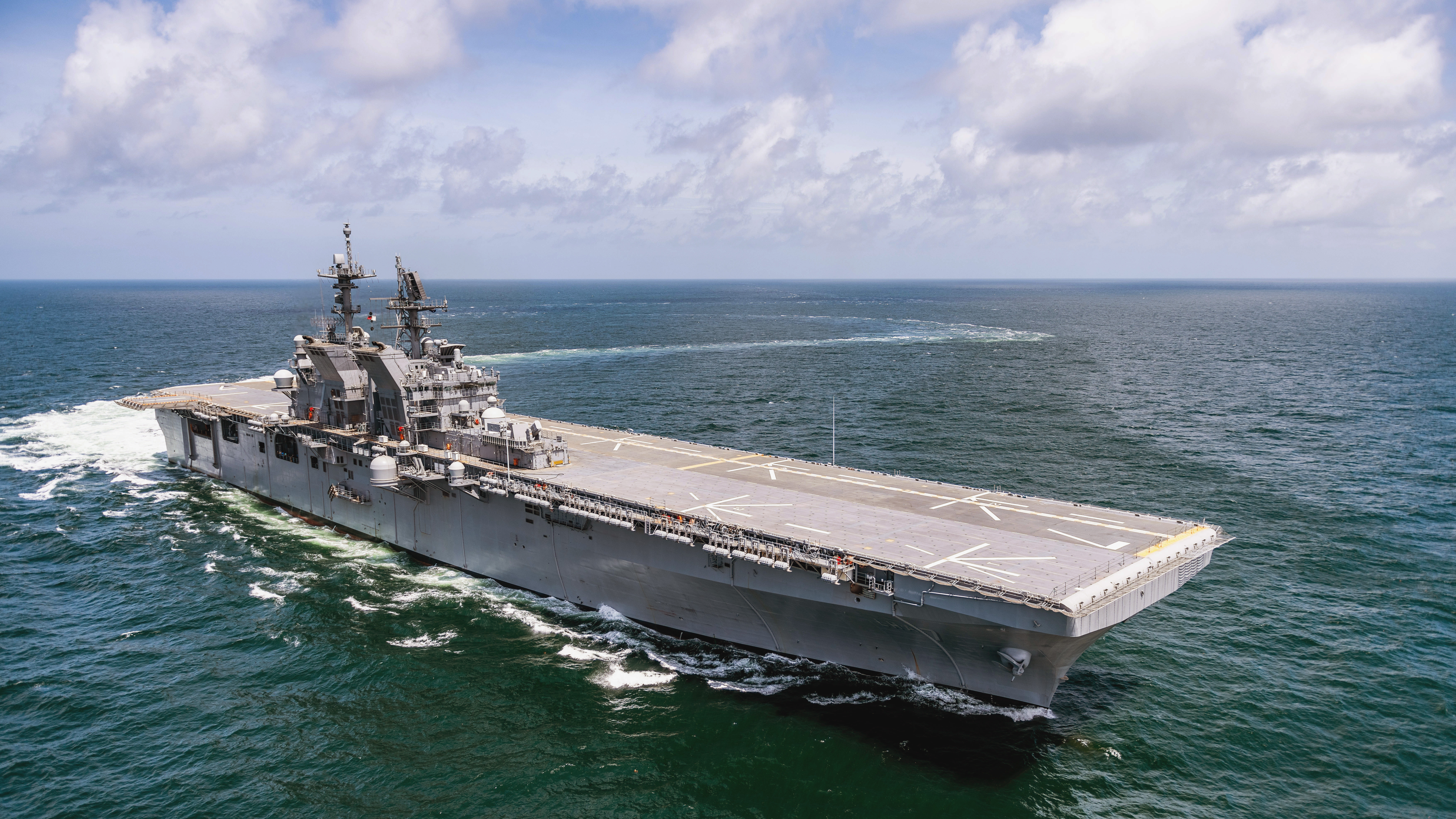 The U.S. Navy amphibious assault ship USS Tripoli (LHA-7) underway in the Gulf of Mexico during builder’s trials on 15 July 2019. Tripoli was the third U.S. Navy ship named for the Battle of Derne in 1805, the first land battle the United States fought overseas. Tripoli was commissioned on 15 July 2020.